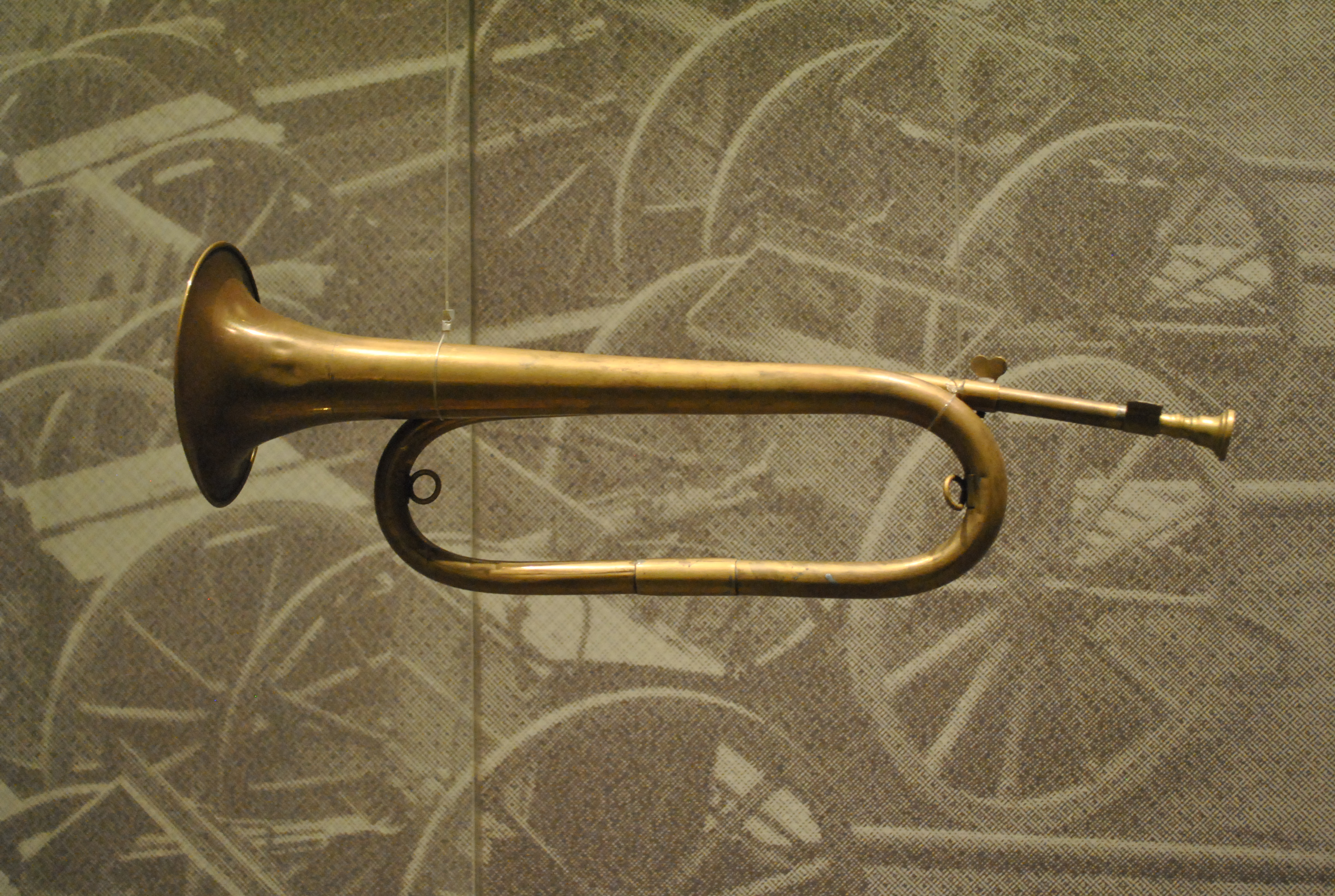 Bugle used by the troops of the Northern Division of Francisco Villa.